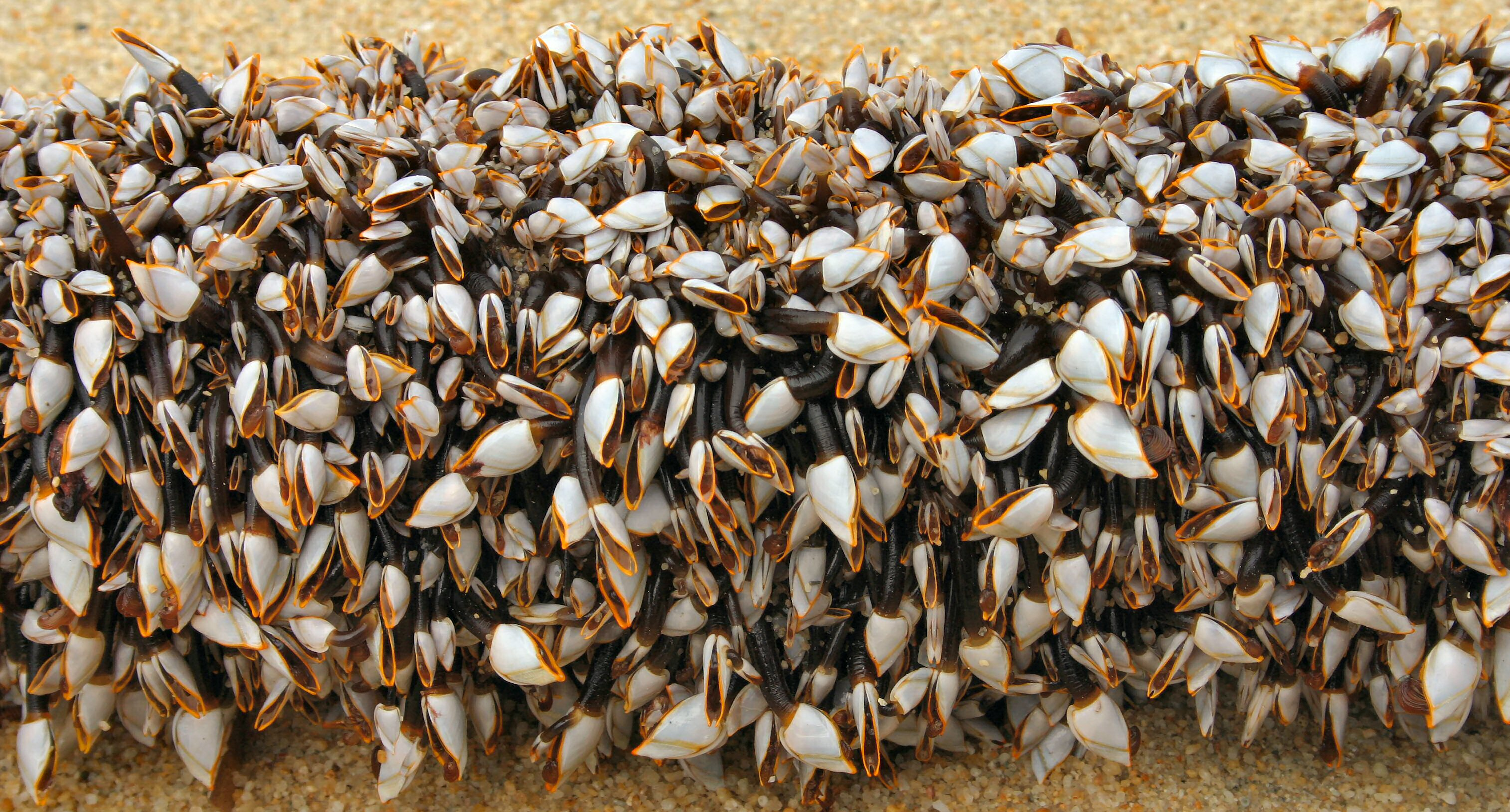 Image of Lepadid (Gooseneck Barnacles Lepas anatifera) in Bophut, Koh Samui, Thailand.